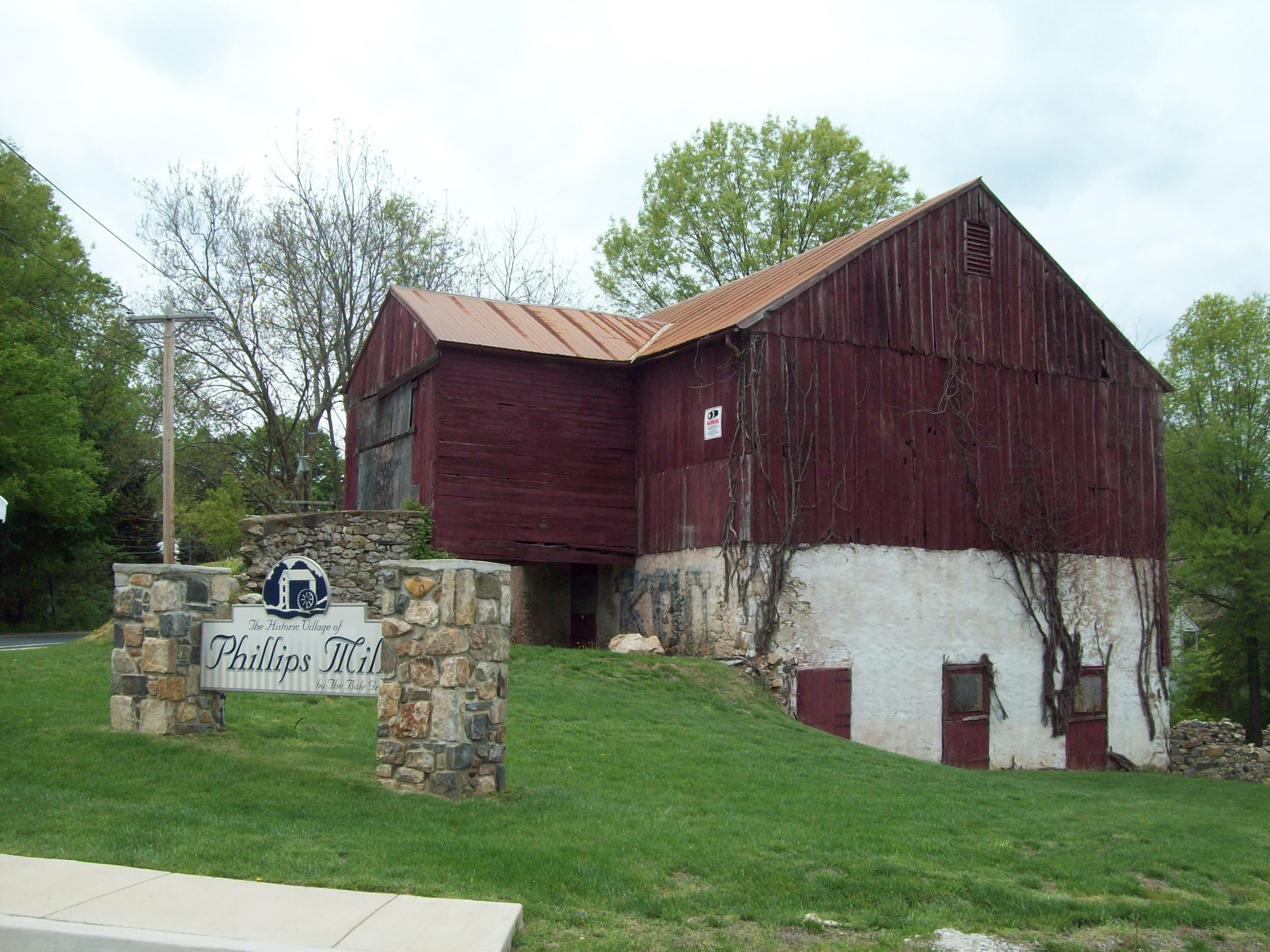 The J.M. Gross Bank Barn, part of the Thomas Phillips Mill Complex, April 2010